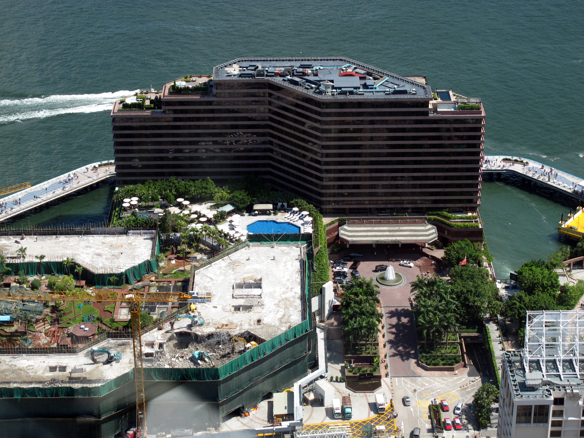 InterContinental Hong Kong